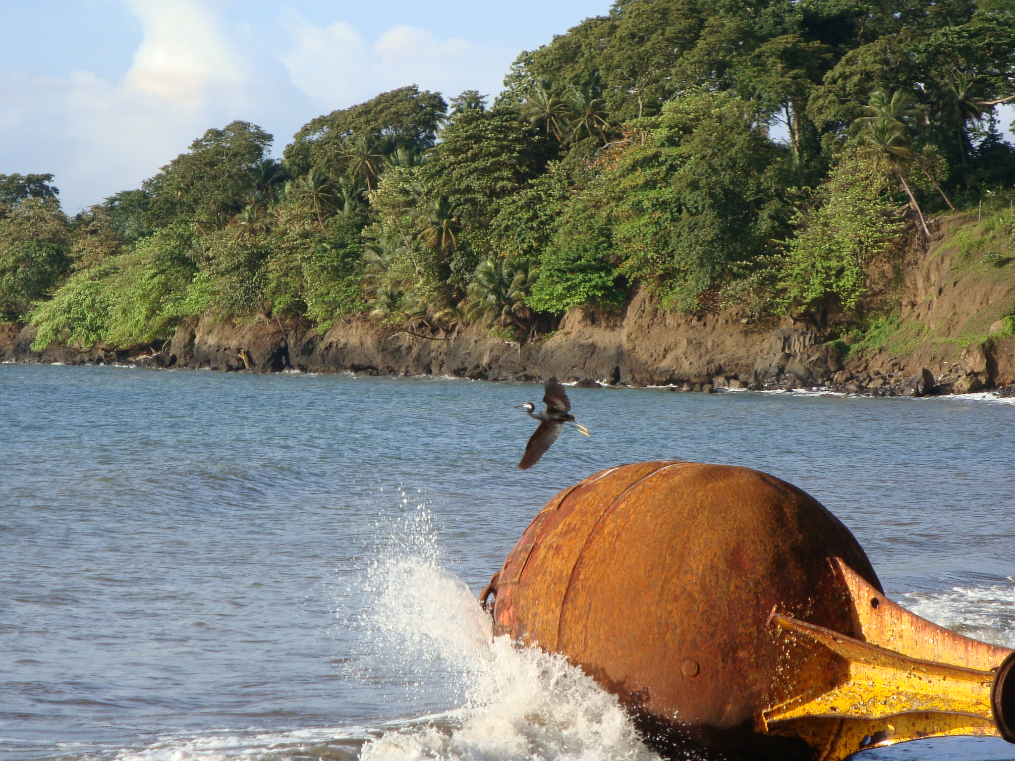 This is an image with the theme "Africa on the Move or Transport" from: Equatorial Guinea